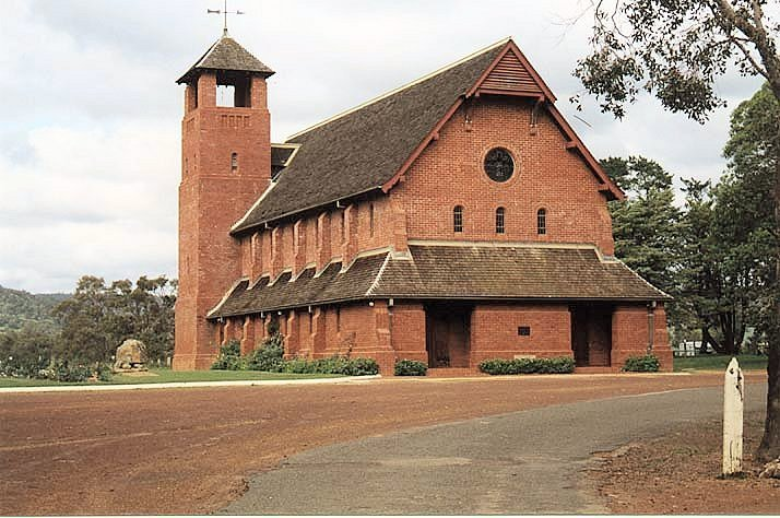 Photo of chapel of Fairbridge Farm School, Pinjarra, designed by Sir Herbert Baker